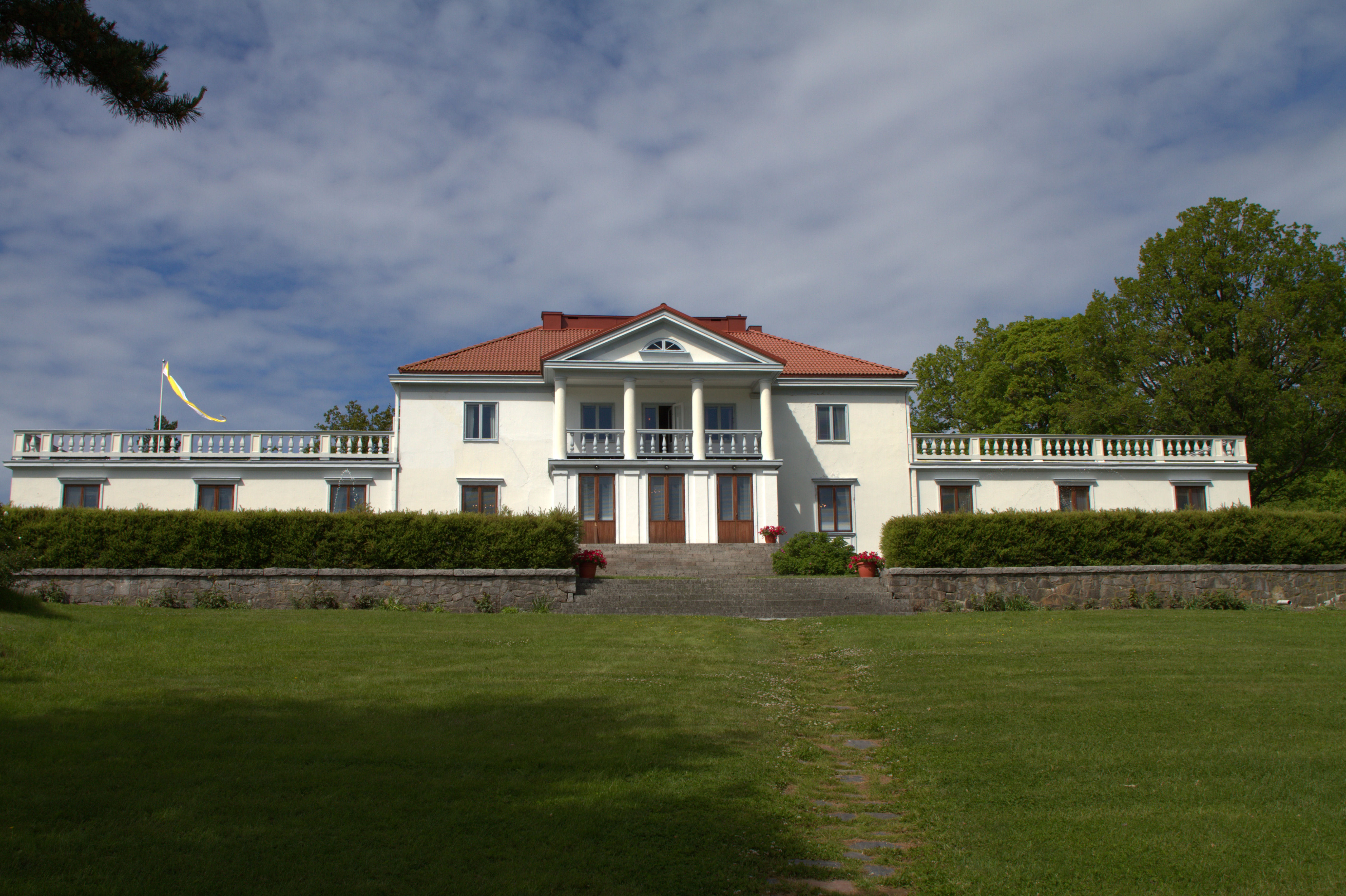 Söderlångvik